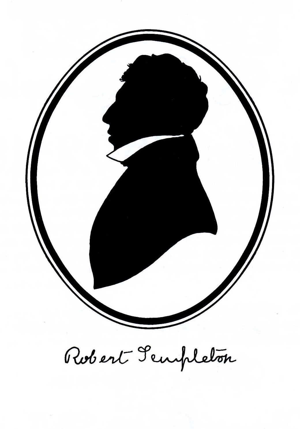 Scan from own photograph.Original silhouette 1830s Robert Templeton, the son of John and Katherine Templeton, of Cranmore, Belfast, was born in December, 1802, joining an older sister.He was to be followed by three more children all girls. John Templeton (1766–1825), a prosperous Belfast wholesale merchant, was also a noted naturalist whose special interest was botany. Elected an Associate of the Linnean Society of London in 1795, he knew and corresponded with Joseph Banks, William Hooker, Dawson Turner and G.B. Sowerby, all eminent English botanists. In 1821 Robert left for Edinburgh to study medicine and following graduation practised in The University hospital. In 1833 he took a commission in the Royal Artillery as Assistant Surgeon in the Royal Artillery. A decisive step leading to twelve extraordinarily productive years exploring the natural history of the islands of first Mauritius then Ceylon.With Edgar Layard.He is best known for his work on the Lepidoptera, Coleoptera and other insects of Ceylon, contributions to John Blackwell's Spiders of Great Britain and Ireland (1861) and work on British and Irish Thysanura and Coleoptera. .